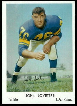 A 1959 promotional image of Los Angeles Rams player John LoVetere.